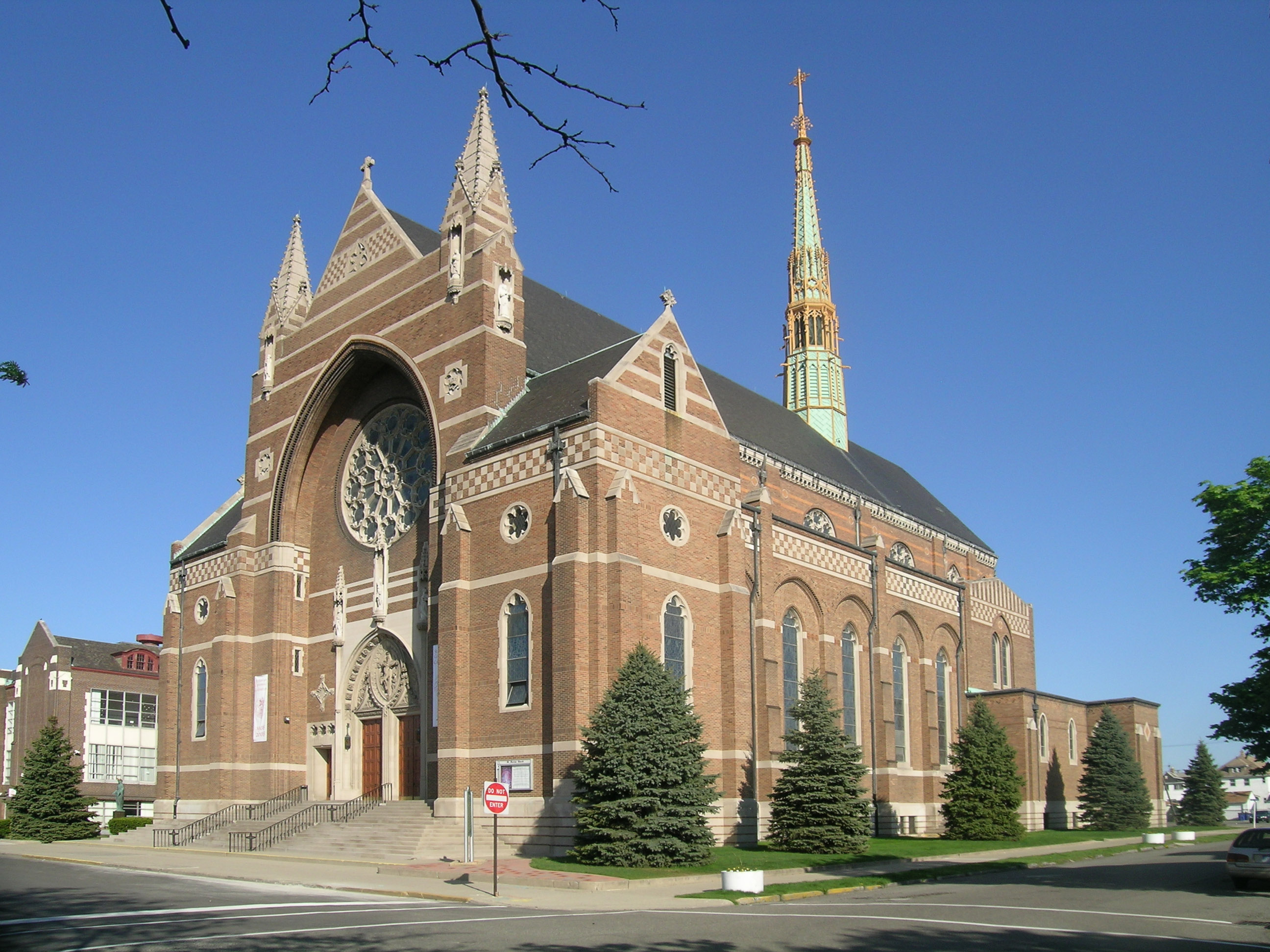 St. Florian Church, a Roman Catholic parish in Hamtramck, Michigan, United States, is the centerpiece of the St. Florian Historic District. The district is listed on the US National Register of Historic Places (NRHP). NRHP reference number 84001865